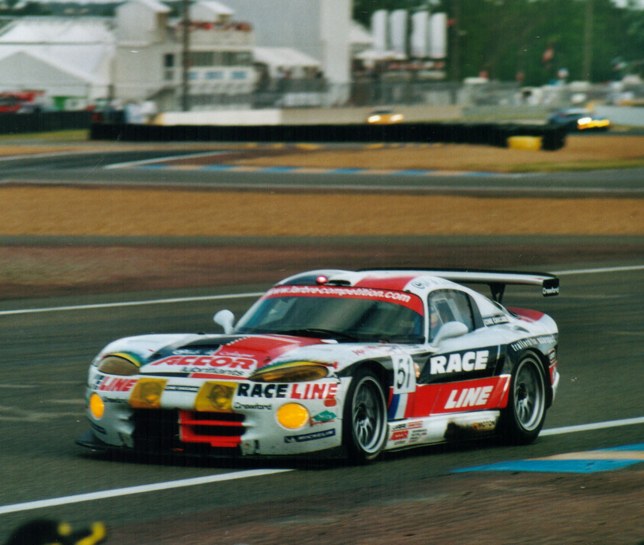 Picture of a Chrysler Viper GTS-R at the 24 hours of Le Mans 2002.